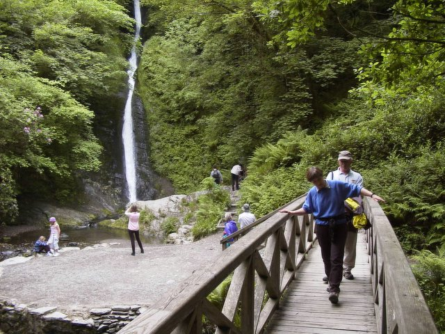 White Lady Waterfall in Lydford Gorge. Southern limit of the walk through the gorge. (National Trust)